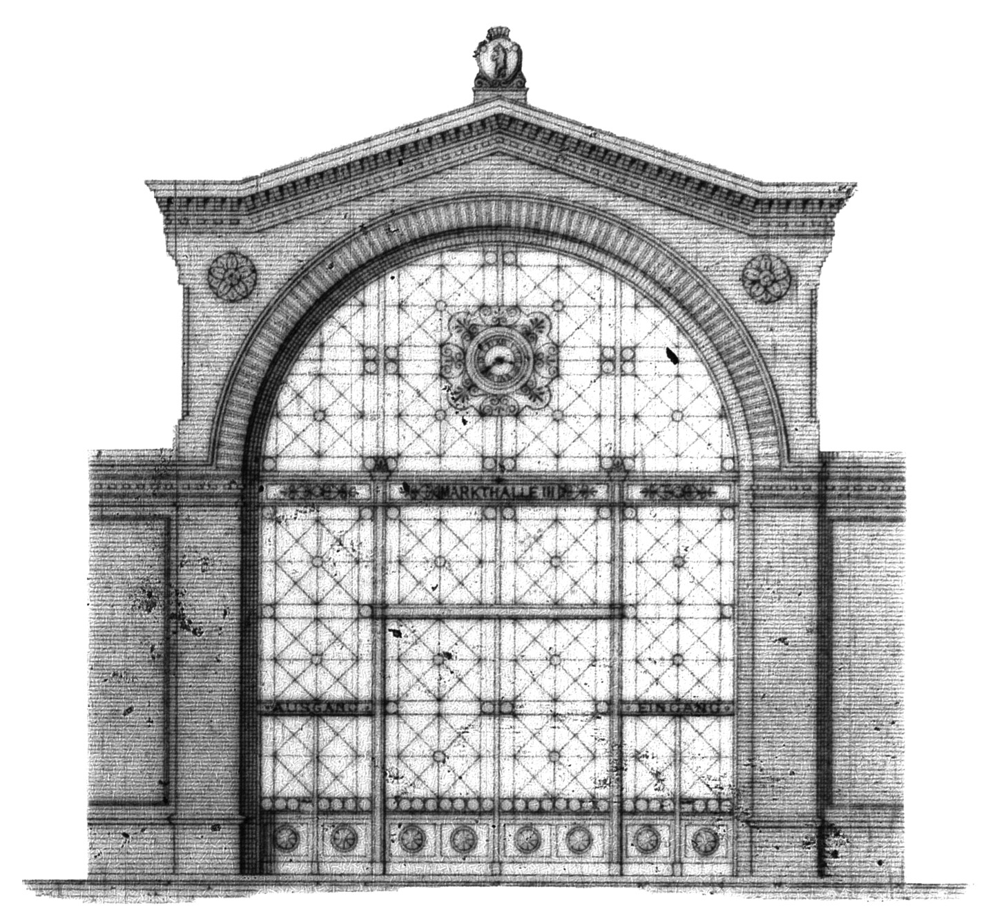 Berlin - market hall III, portal in court at Zimmerstraße